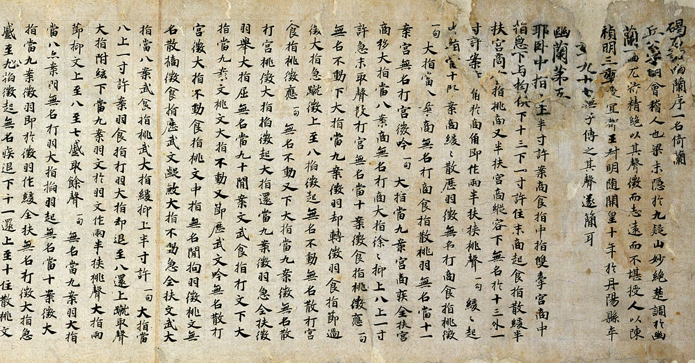 "Elegant Orchid" in the Jieshi Tuning (Jieshidiao Youlan) (碣石調幽蘭, kessekichōyūran) vol. 5